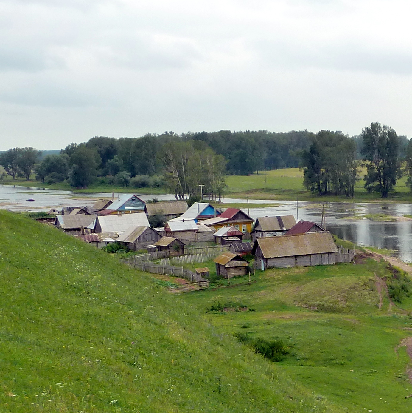 Imendyashevo on the river Zilim, Gafuriysky district of Bashkortostan.